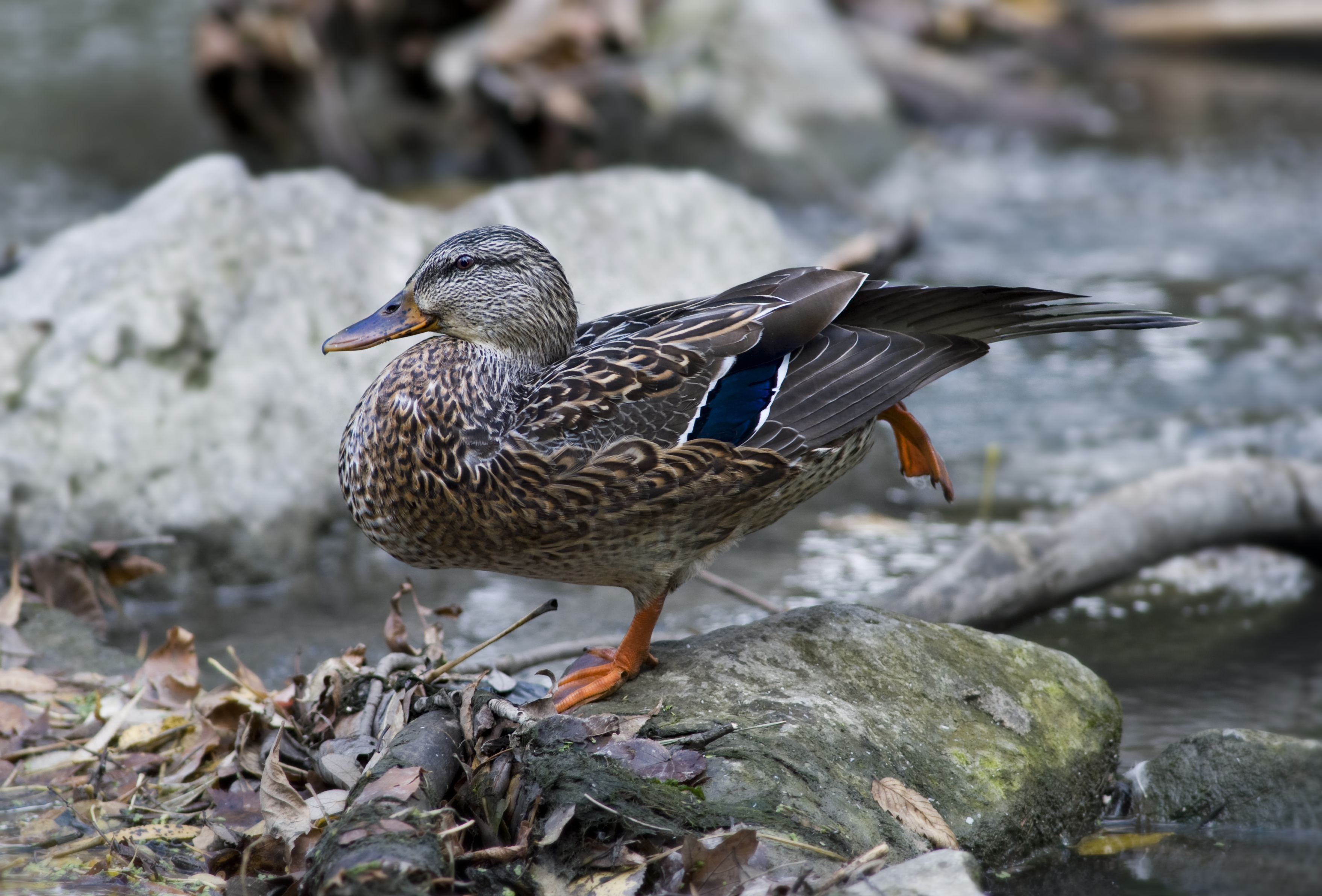 Female mallard duck